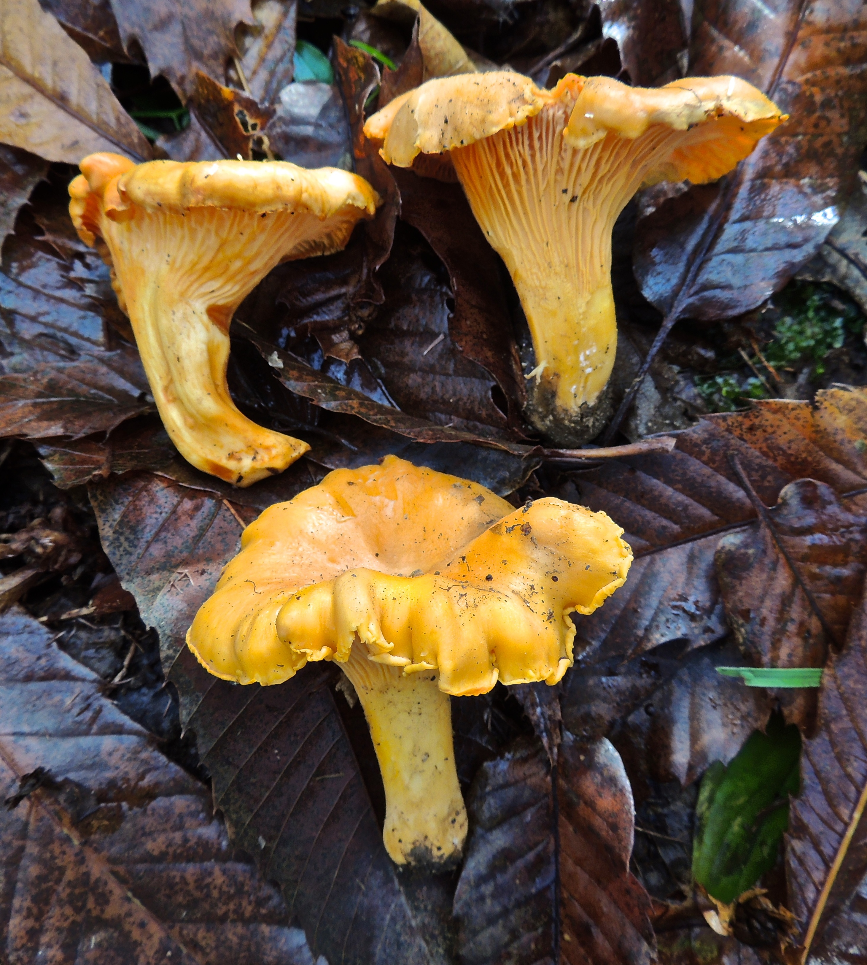 Fruit bodies of the edible fungus Cantharellus subpruinosus Eyssart. & Buyck. Photographed in Canistro, Italy.